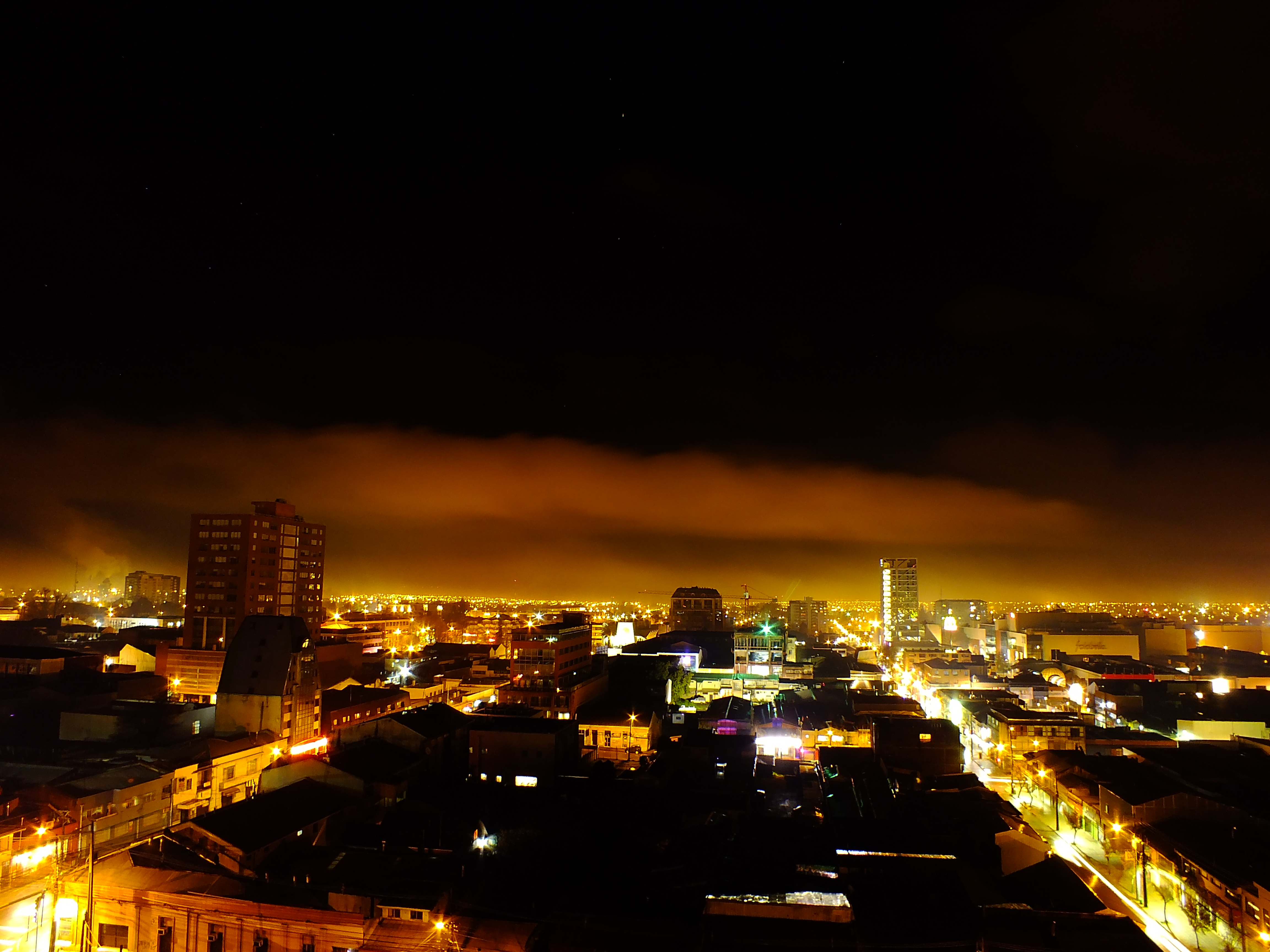 Año 2014